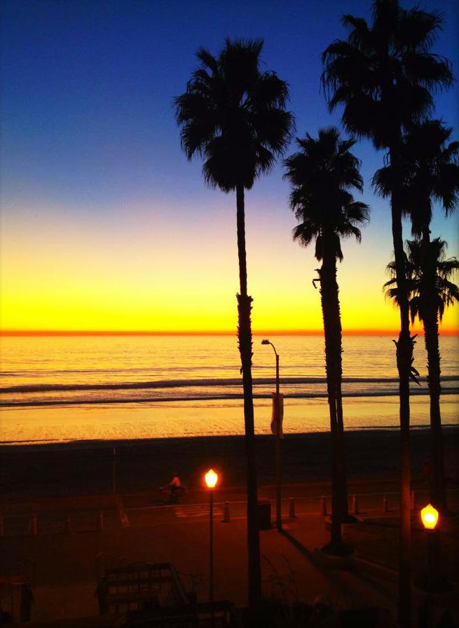 Oceanside CA At Tyson St. Park